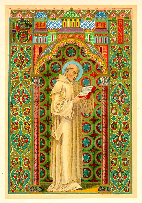 Uit: The Lives of The Fathers, Martyrs and other Principal Saints door: Alban Butler (1711-1773). Uitgegeven door: J.S.Virtue & Co. Ltd, in 1890.